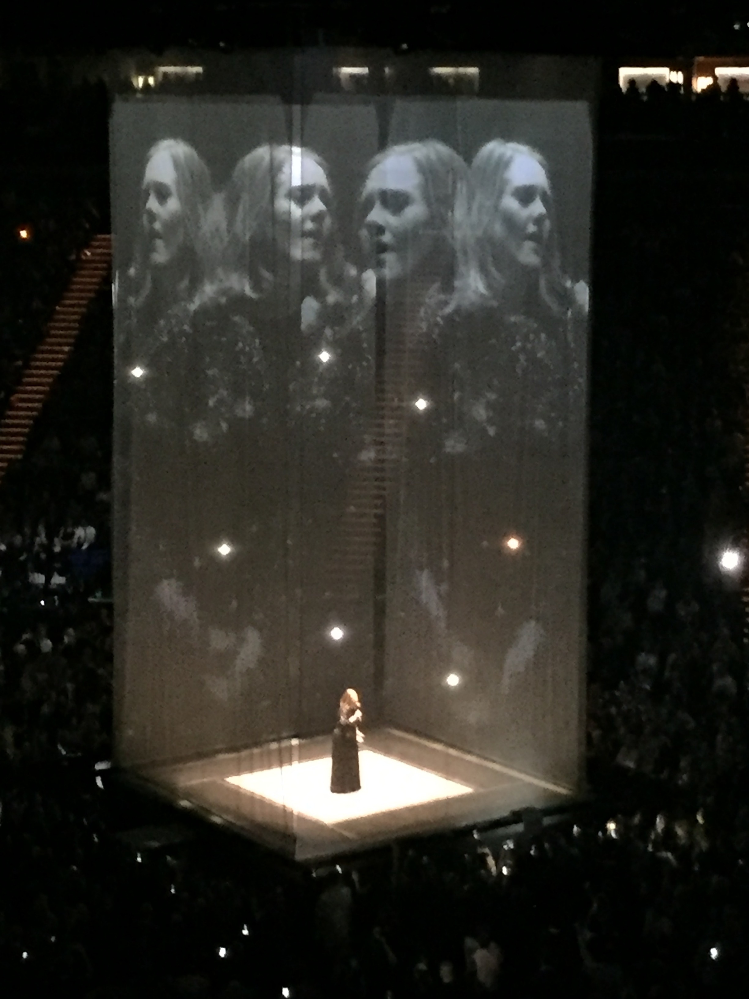 Adele on B-stage at The O2 during her Live 2016 WORLD Tour